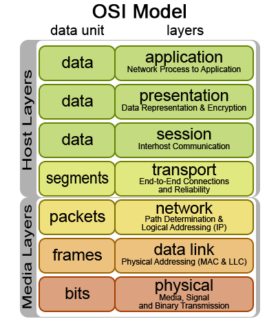 The figure here outlines the data units in the various layers of the OSI model.